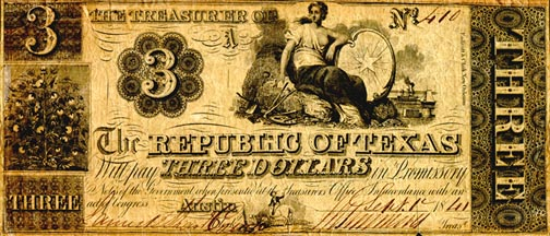 The front of a 3-dollar change note of the Republic of Texas. The inscription reads: THE TREASURER OF The REPUBLIC OF TEXAS Will pay THREE DOLLARS in Promissory Notes of the Government when presented at the treasurer's Office In accordance with an act of Congress AUSTIN Sept. 1t 1841 (signed) Samuel B. Shaw, Clerk Comptr J. W. Simmons, Treas.